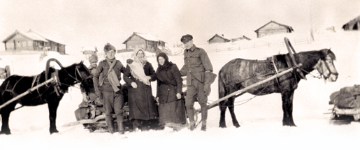 Canadian_Siberian_Expeditionary_Force